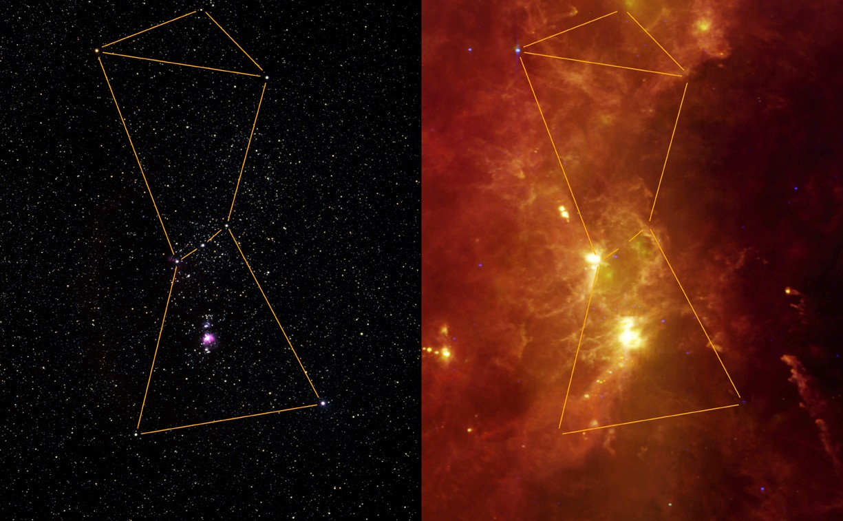 Comparison of the constellation Orion viewed in visible and infrared light. In the infrared image from NASA’s IRAS mission we can see clouds of dust and gas invisible to the human eye. The bright spots are the locations where stars are being born.